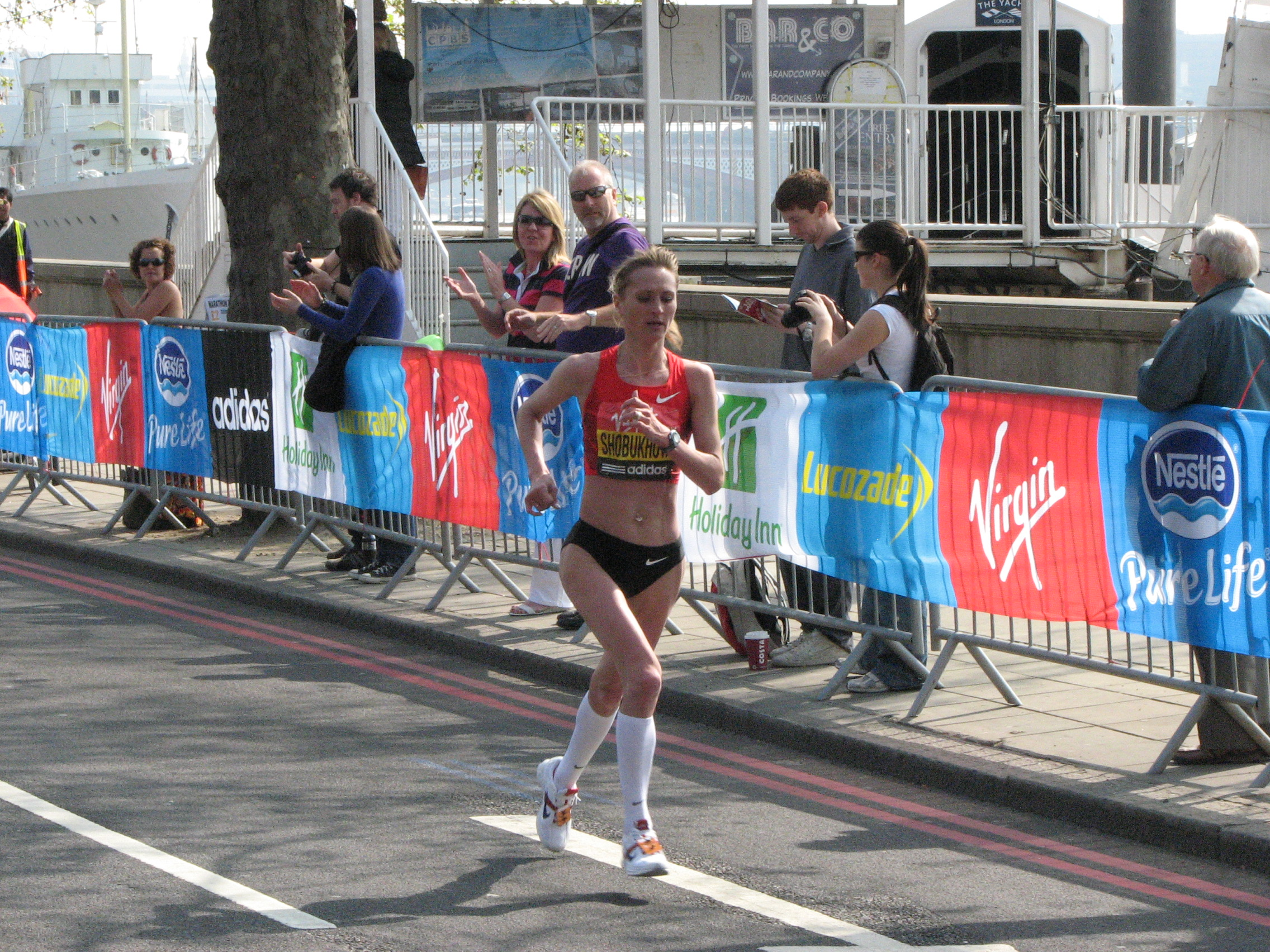 Defending champion Liliya Shobukhova came in second in 2:20:15, setting a Russian record. Virgin London Marathon, 17 April 2011. Taken from 24 and a half miles, at the (western) junction of Victoria Embankment and Temple Place, very close to the Walkabout.